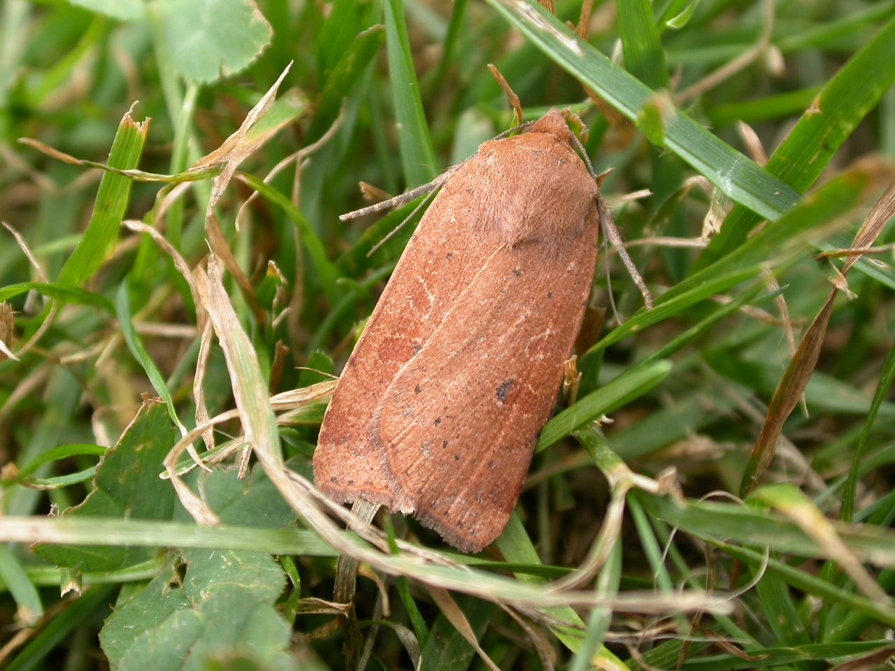 Noctua comes, to MV light, Hellerup, Denmark, 25 August 2002